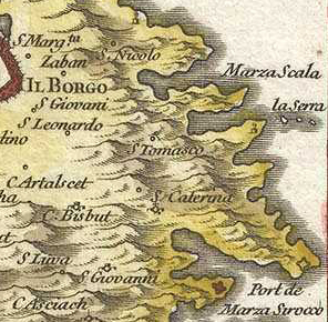 Detail of South-eastern Malta from Map of Malta and Gozo in 1748 published by Gilles Robert de Vaugondy